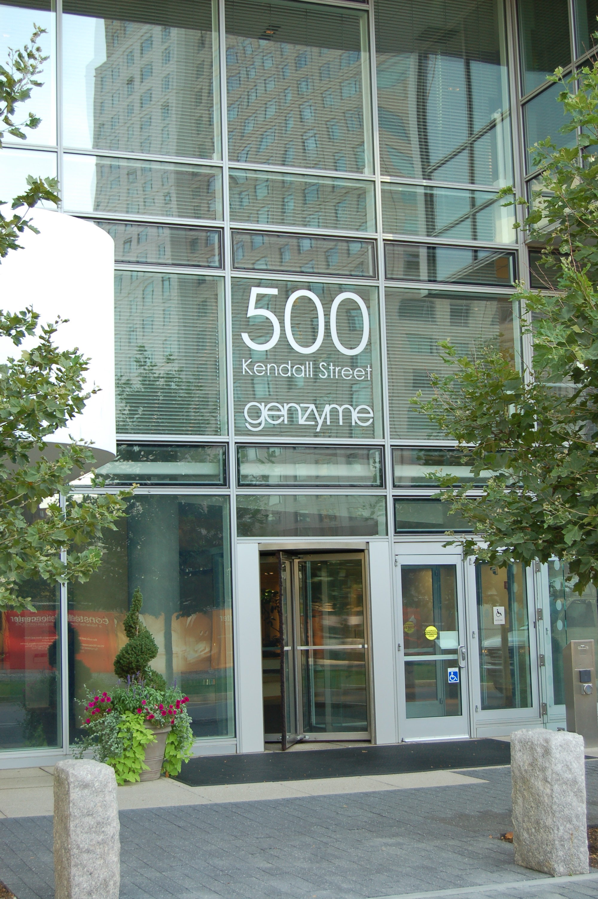 The entrance to the Genzyme building at 500 Kendall Square in Cambridge, Massachusetts